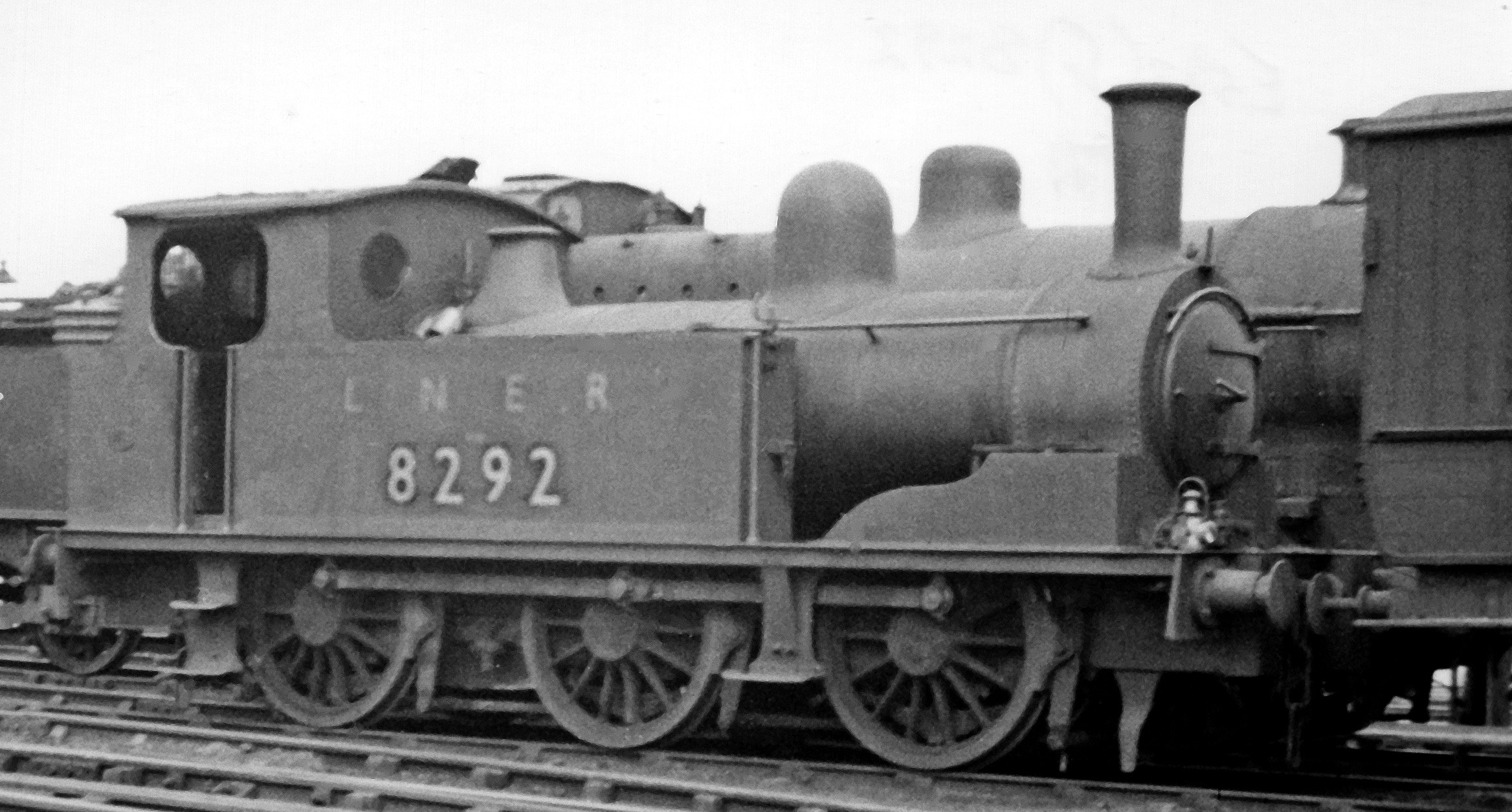 LNER (ex-North Eastern) 0-6-0T at Normanton (LMS) Locomotive Depot. Because its main line from York via Church Fenton came to Normanton, carrying heavy east-west freight traffic, the LNER also had a marshalling yard there but its locomotives were kept and serviced at the LMS (ex-Midland) Depot. This Worsdell J71 0-6-0T (No. 8292) was built in 1892 and withdrawn in 1954, being one of three allocated there in 1947 along with two ex-NE 0-6-0's. At the time the LMS had 75 locomotives at Normanton (LMS Code 20D), comprising:- 4 4-4-0, 19 2-8-0, 2 2-6-0, 37 0-6-0, 2 2-6-2T, 5 2-4-2T and 6 0-6-0T.